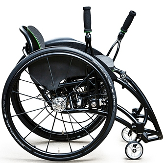 Lever-propelled Wheelchair with dynamic seating, DESINO GmbH Köln, Germany